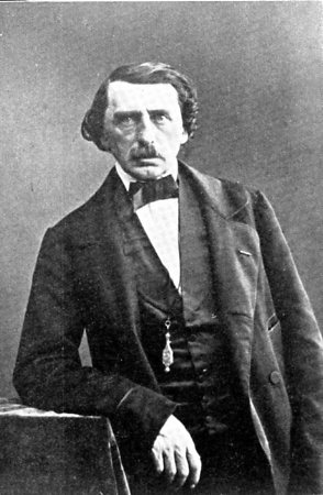 Hippolyte Lucas, french playwright